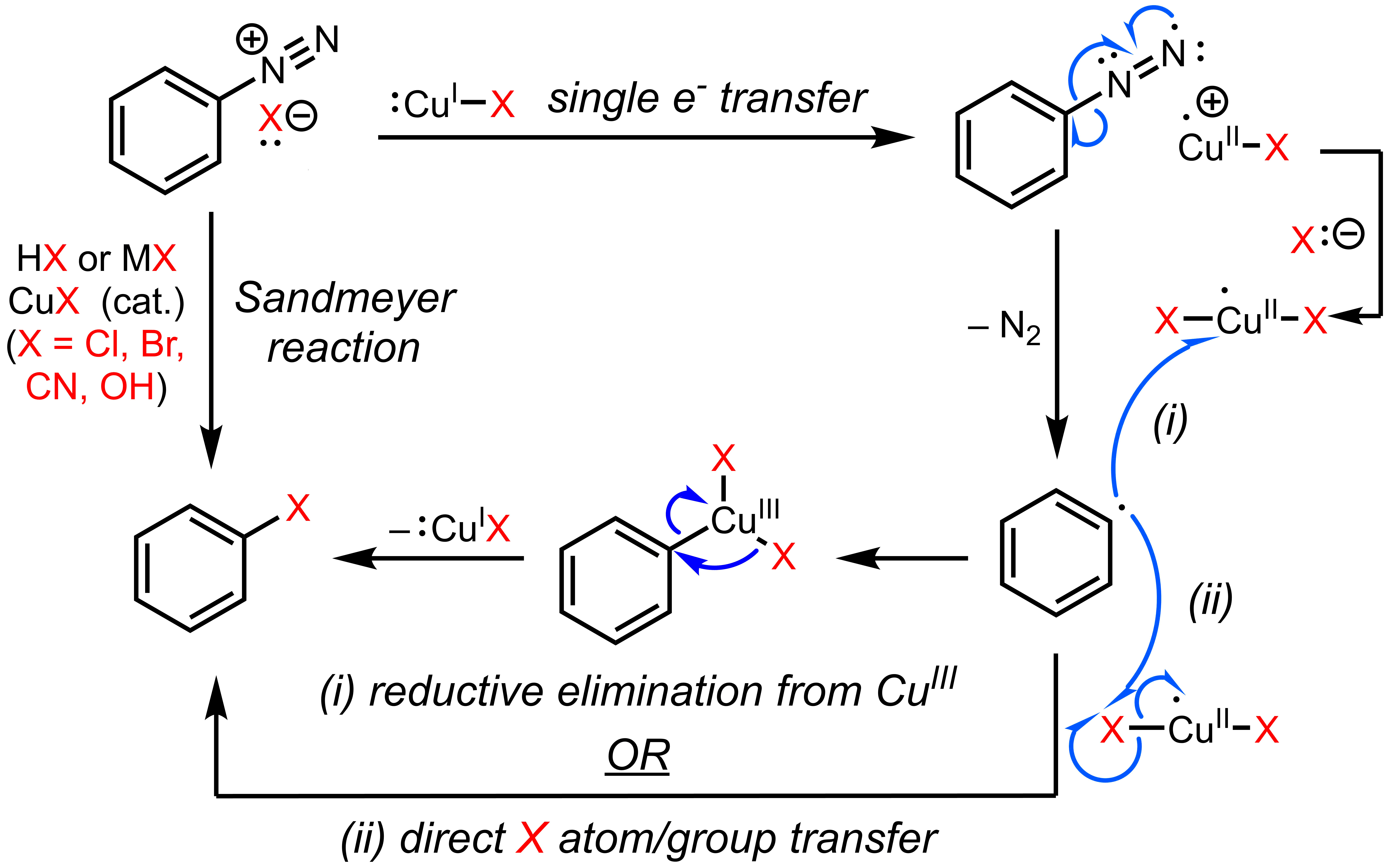 Two commonly proposed mechanisms for the Sandmeyer reaction